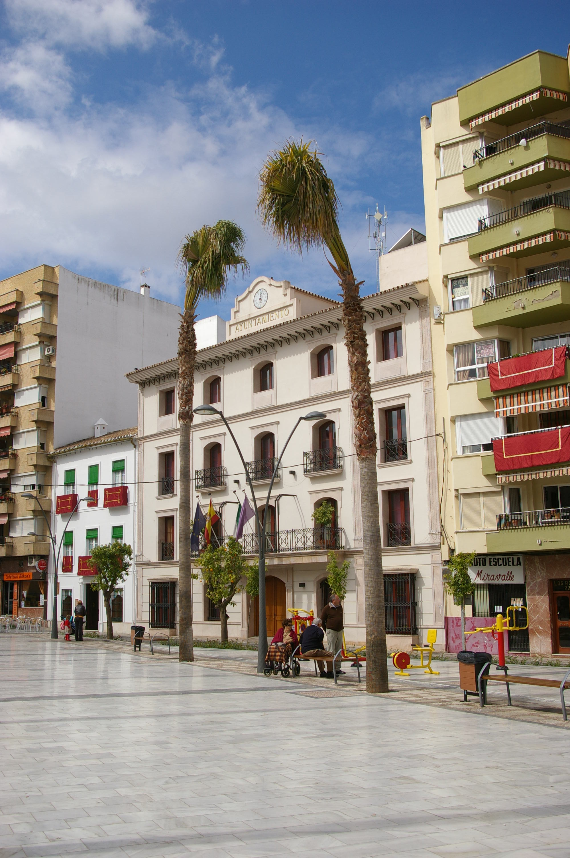 Coín, Plaza del Toril